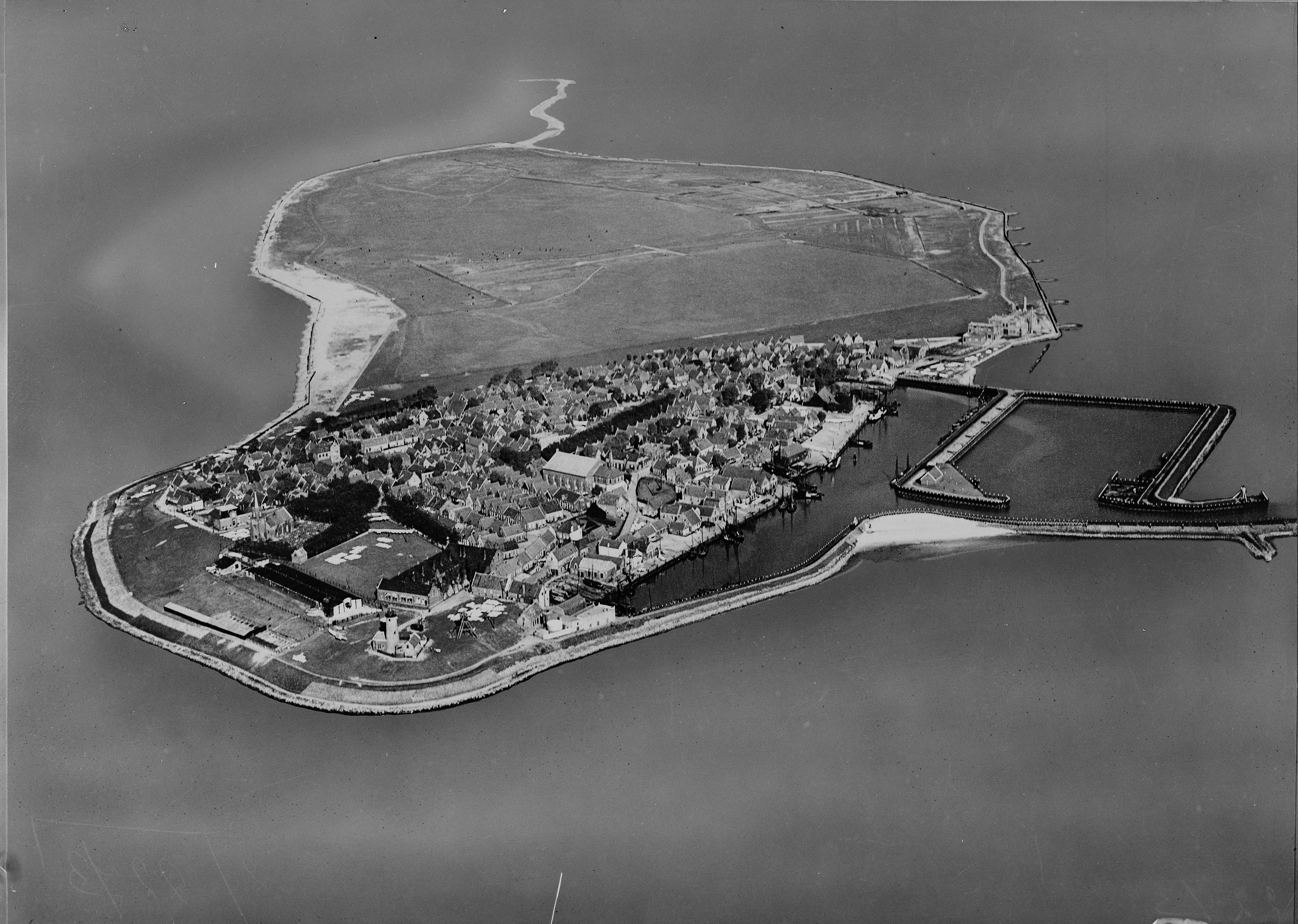 Aerial photograph of Urk, The Netherlands. Near the church and the green the large internment camp is visible, where Belgian, British and French military were interned, as the Netherlands was then a neutral country.